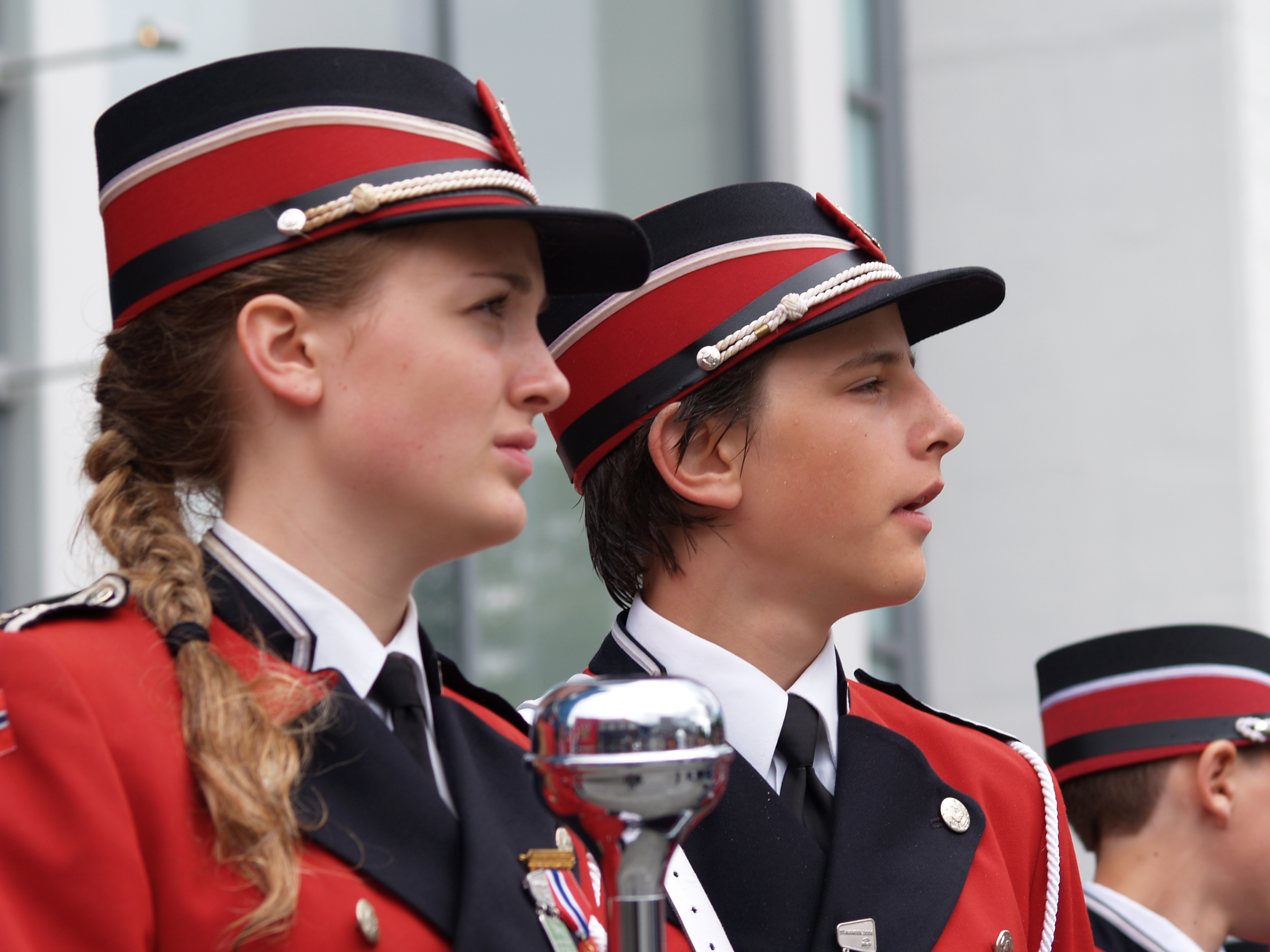 To tidligere Tamburmajorer: Hilde Vedvik Thomassen og Tobias Ottestad